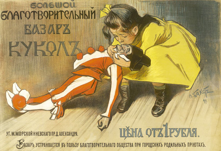 Big Philanthropic Puppet Bazaar Sankt Petersburg, 1899, Chromolithography, 70x102 cm